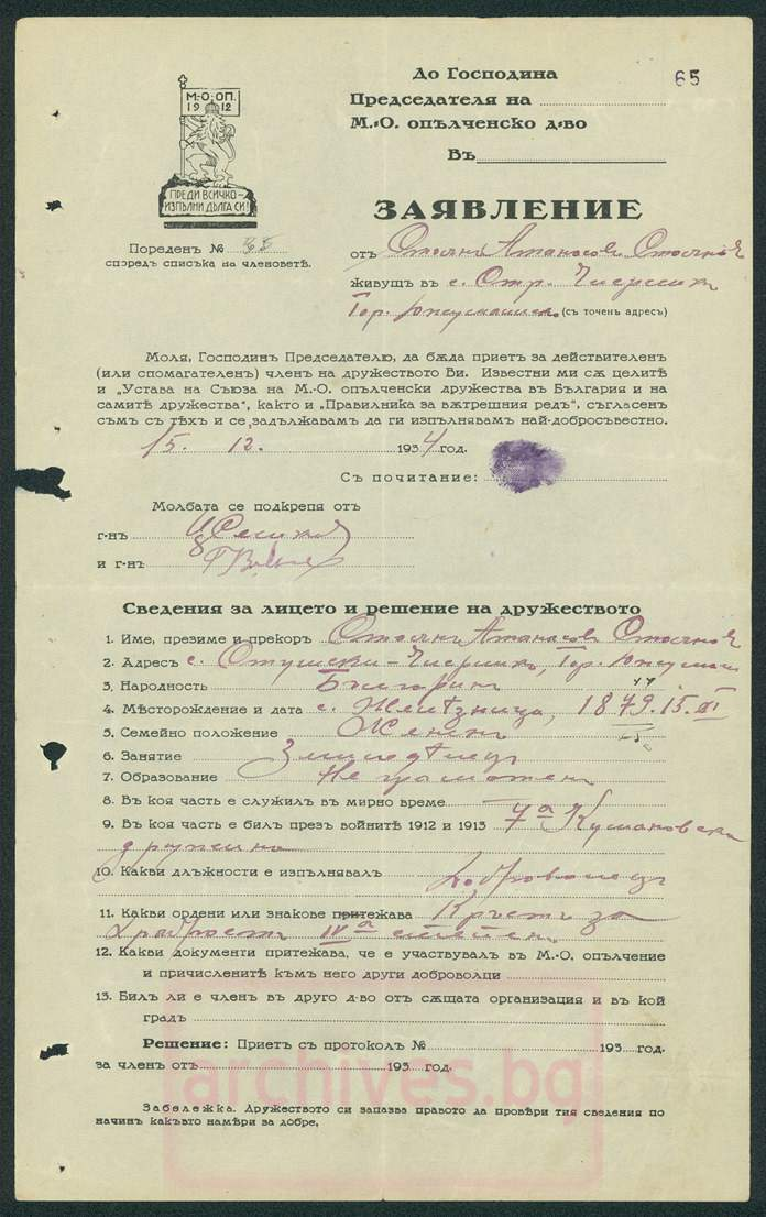 Stoyan_Stoyanov's Document